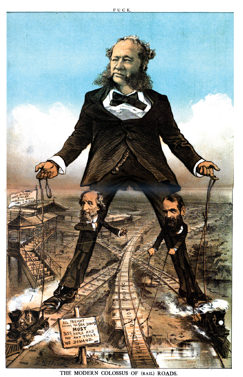 Cartoon, "The Modern Colossus of (Rail) Roads." Depicted in the center is William Henry Vanderbilt, President of the New York Central Railroad and several other railroads, as the most powerful tycoon in the U.S. railroad industry. Standing on his feet are two other powerful industry figures. On the left is Cyrus West Field, who controlled the New York Elevated Railroad Company. On the right is Jay Gould, who controlled the Union Pacific Railroad and other western railroads. The sign in the foreground reads, "All freight seeking the seaboard must pass here and pay any tolls we demand." The flag over Field's elevated railway station reads, "L Road; Many nickels stolen are millions gained; by C. W. Field." Composite cartoon created from original two-page publication.